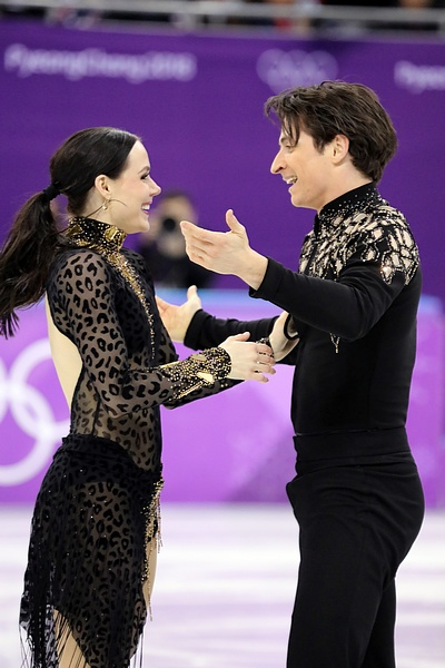 Tessa Virtue and Scott Moir at the 2018 Winter Olympic Games in PyeongChang